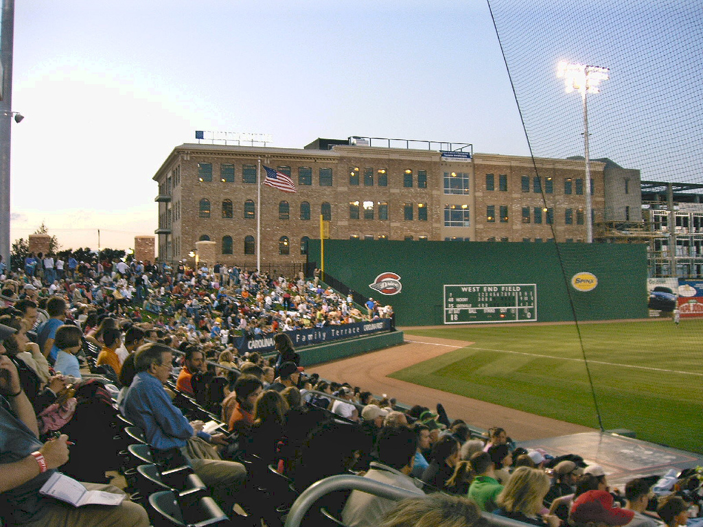 A view of left field at Greenville's new West End Field Field just off Greenville, SC's Main St. The 5,700 seat stadium is the home of the Greenville Drive, a Class A affilate of the Boston Red Sox American League baseball club. The building rising above the Greenville version of the Green Monster is a new office and condo complex made out of recycled bricks from a closed down local textile mill. Oddly, for a Red Sox minor league stadium, the sign above the office building is for "New York Life," but there is a Citgo gas station down the street.